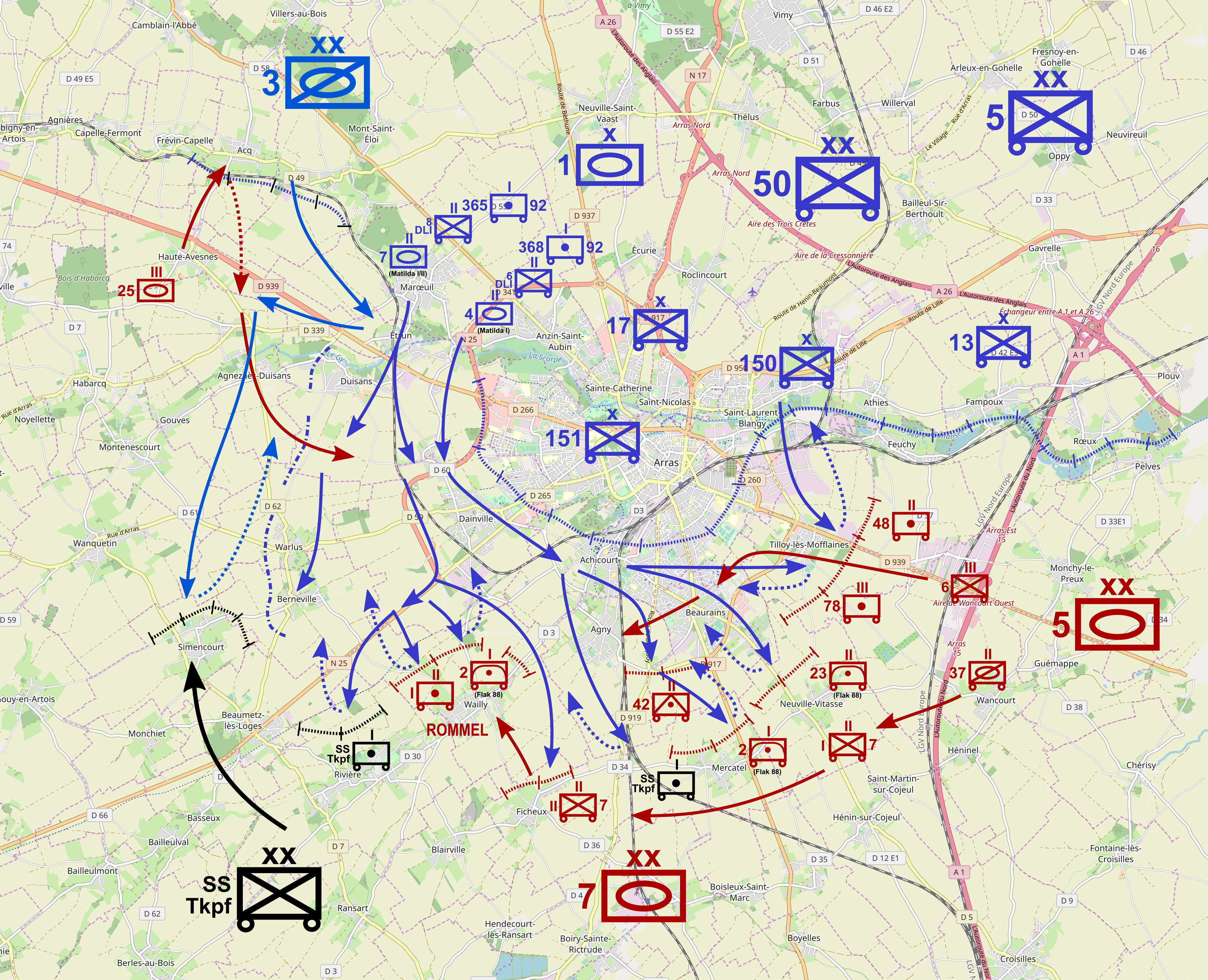 Map showing the battle at Arras, May 21 1940. Influenced by maps in Karl-Heinz Frieser's "The Blitzkrieg Legend" and Pier Paolo Battistelli's "Panzer Divisions: The Blitzkrieg Years 1939-40". This map may be incomplete, and may contain errors. Don't rely solely on it for navigation.